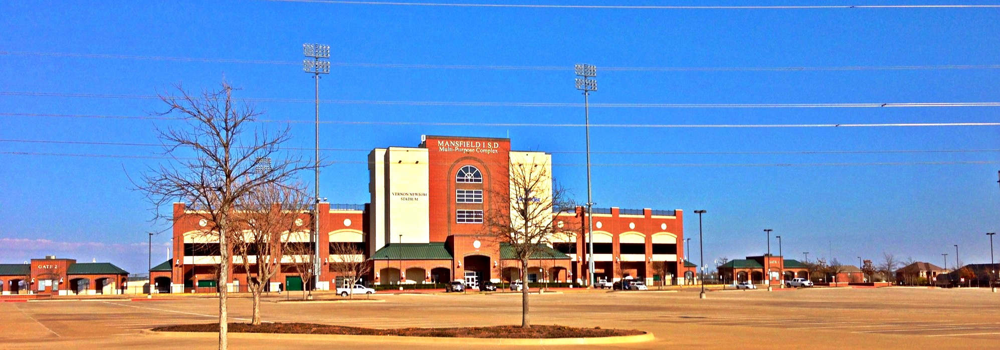 photo of Vernon Newsom Stadium